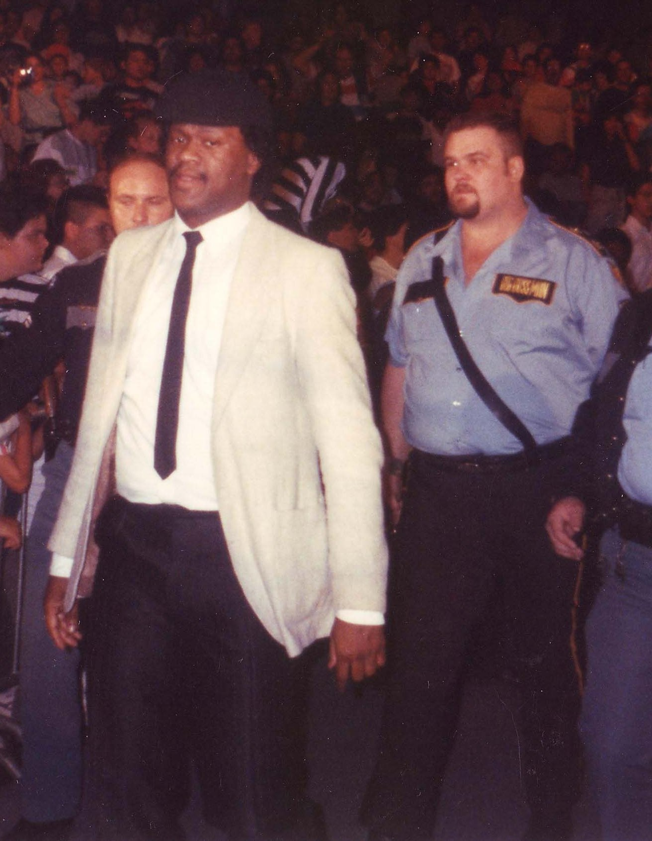 Professional wrestler Ray "Big Boss Man" Traylor and manager Slick